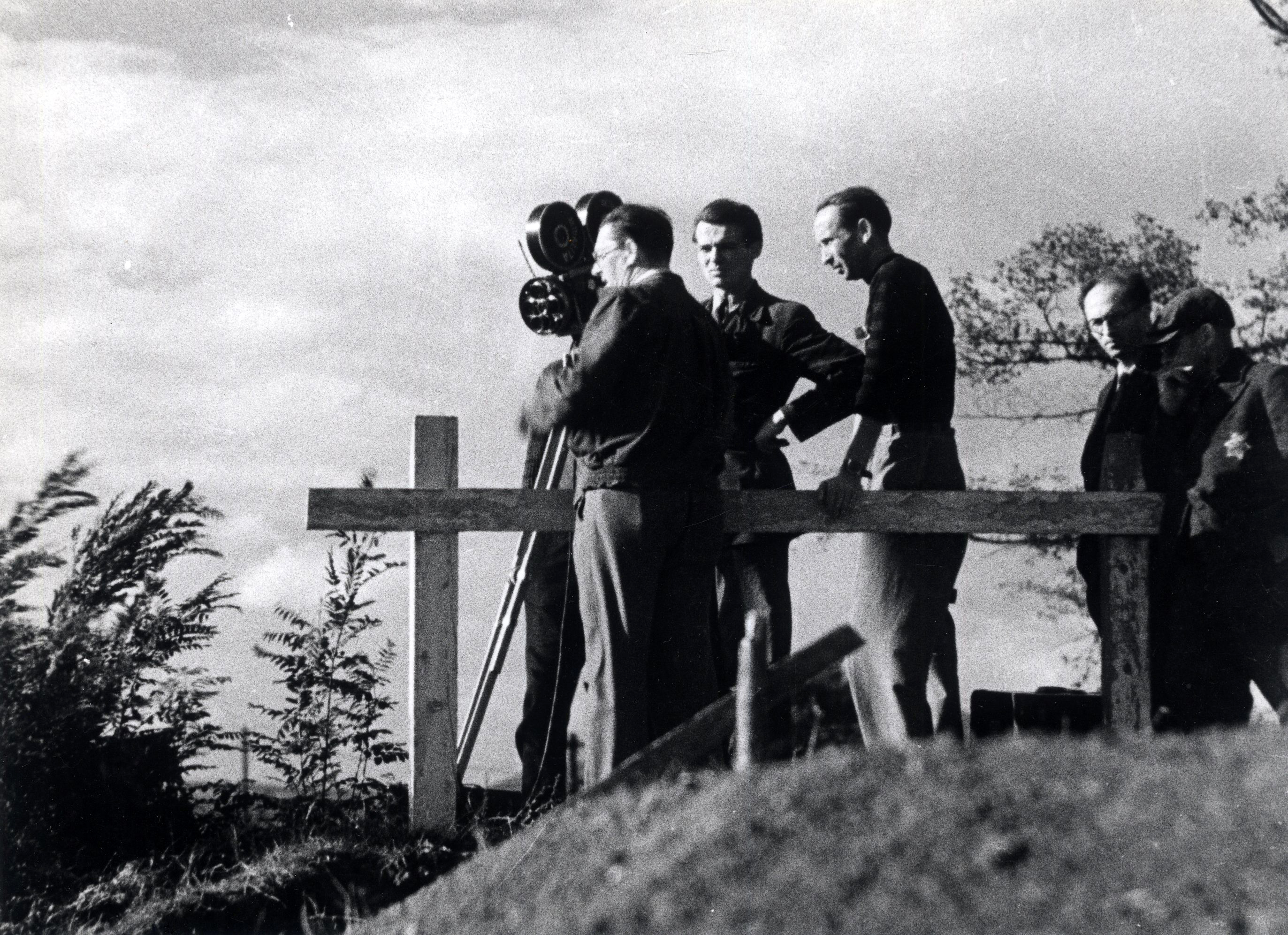 A film crew takes motion pictures in the Theresienstadt ghetto during the filming of the Nazi propaganda film. Assistant cameraman Ivan Fric is standing near the cameraman. A Jewish assistant wearing a star David is on the right.